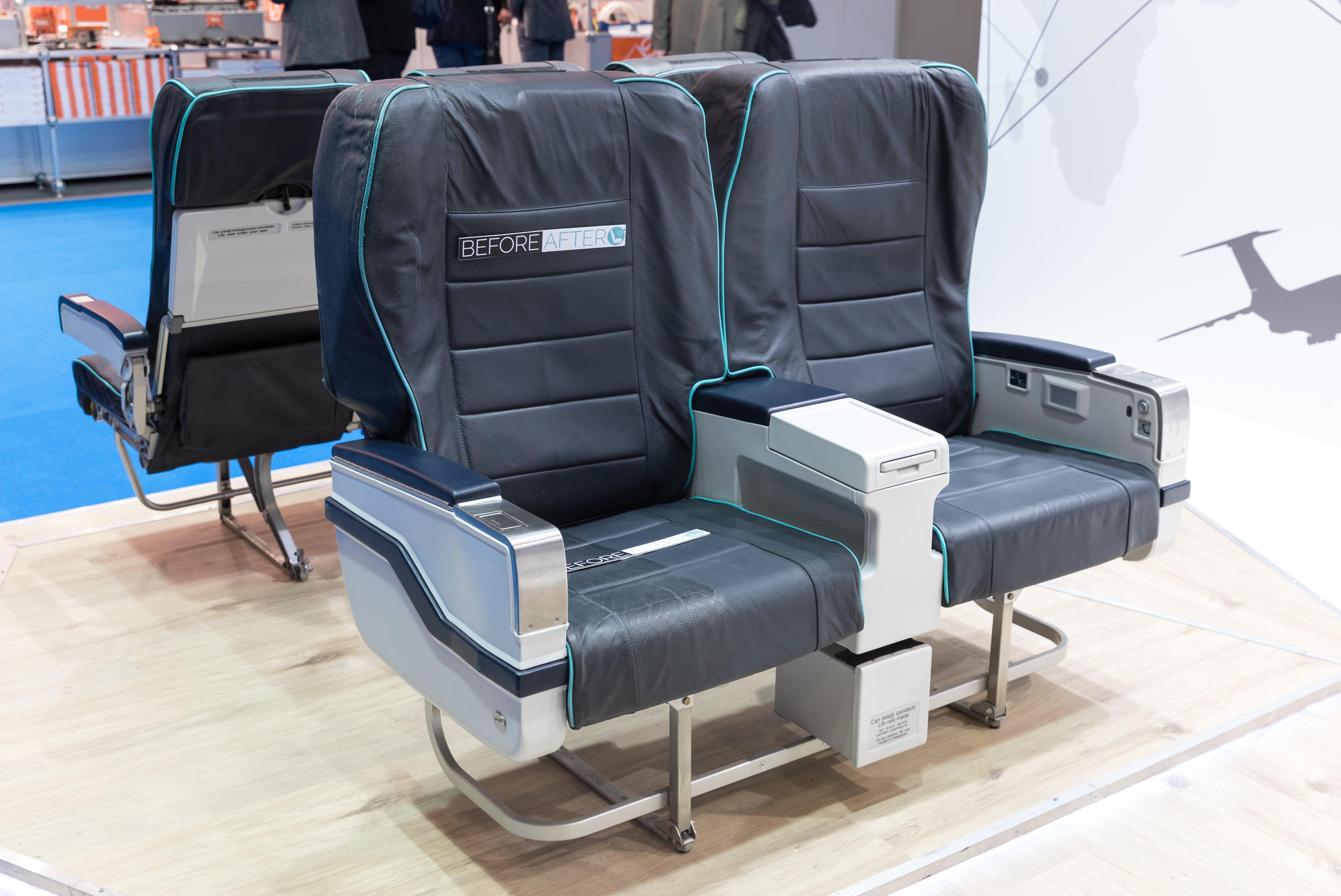 Restored aircraft passenger seats at Passenger Experience Week 2018, Hamburg